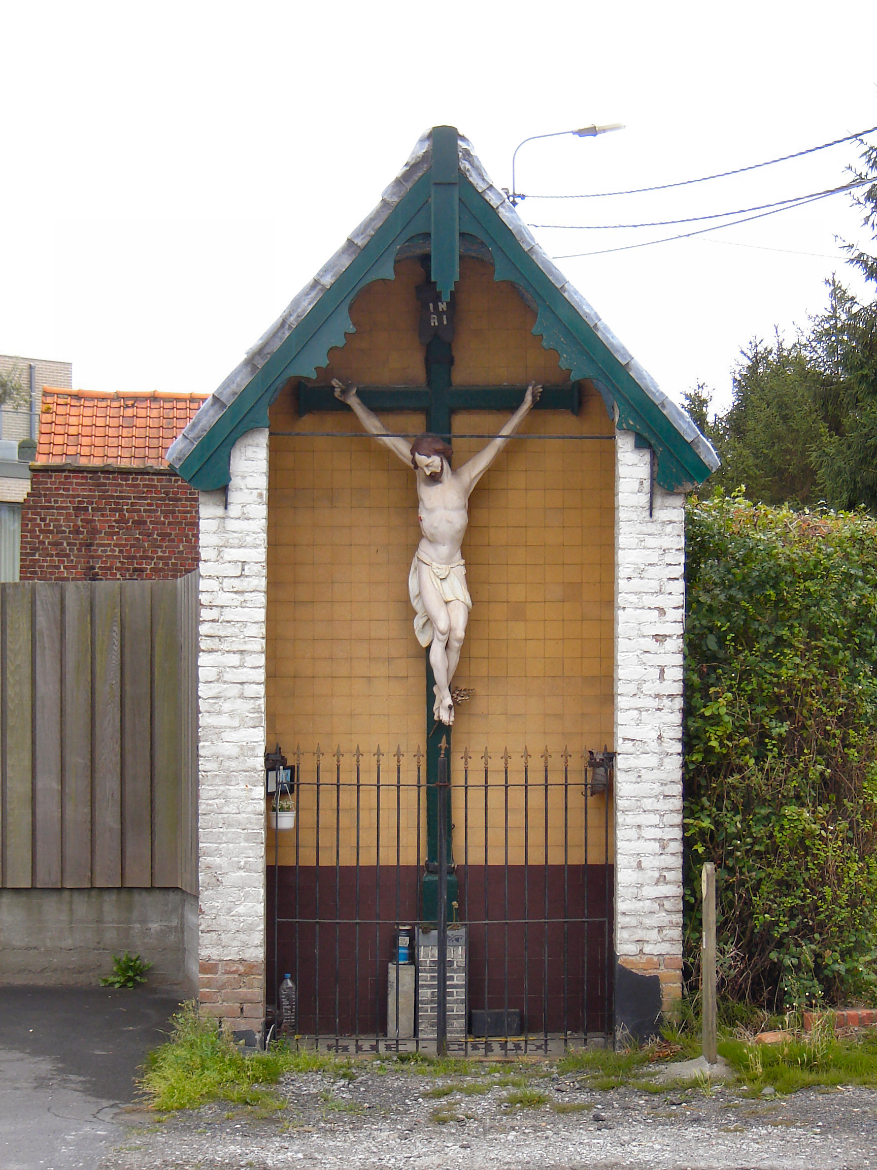 Chapel with cross, near Dronckaertstraat 586 in Lauwe. Lauwe, Menen, West Flanders, Belgium